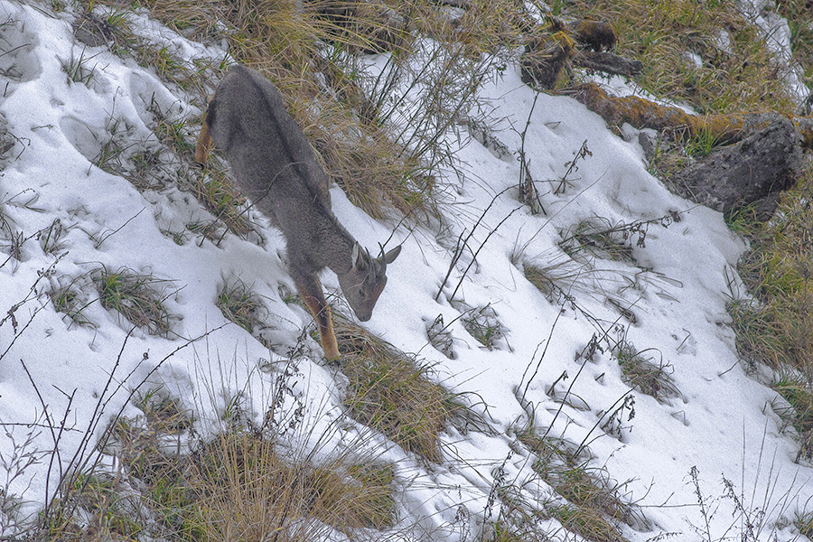 The species Himalayan Brown Goral had been photographed during the wildlife photography trip of GoingWild in Pangolakha Wildlife Sanctuary in East Sikkim ,India on 14.02.2016.